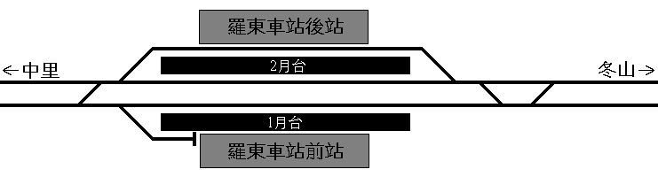 TRA Luodong Station Track layout